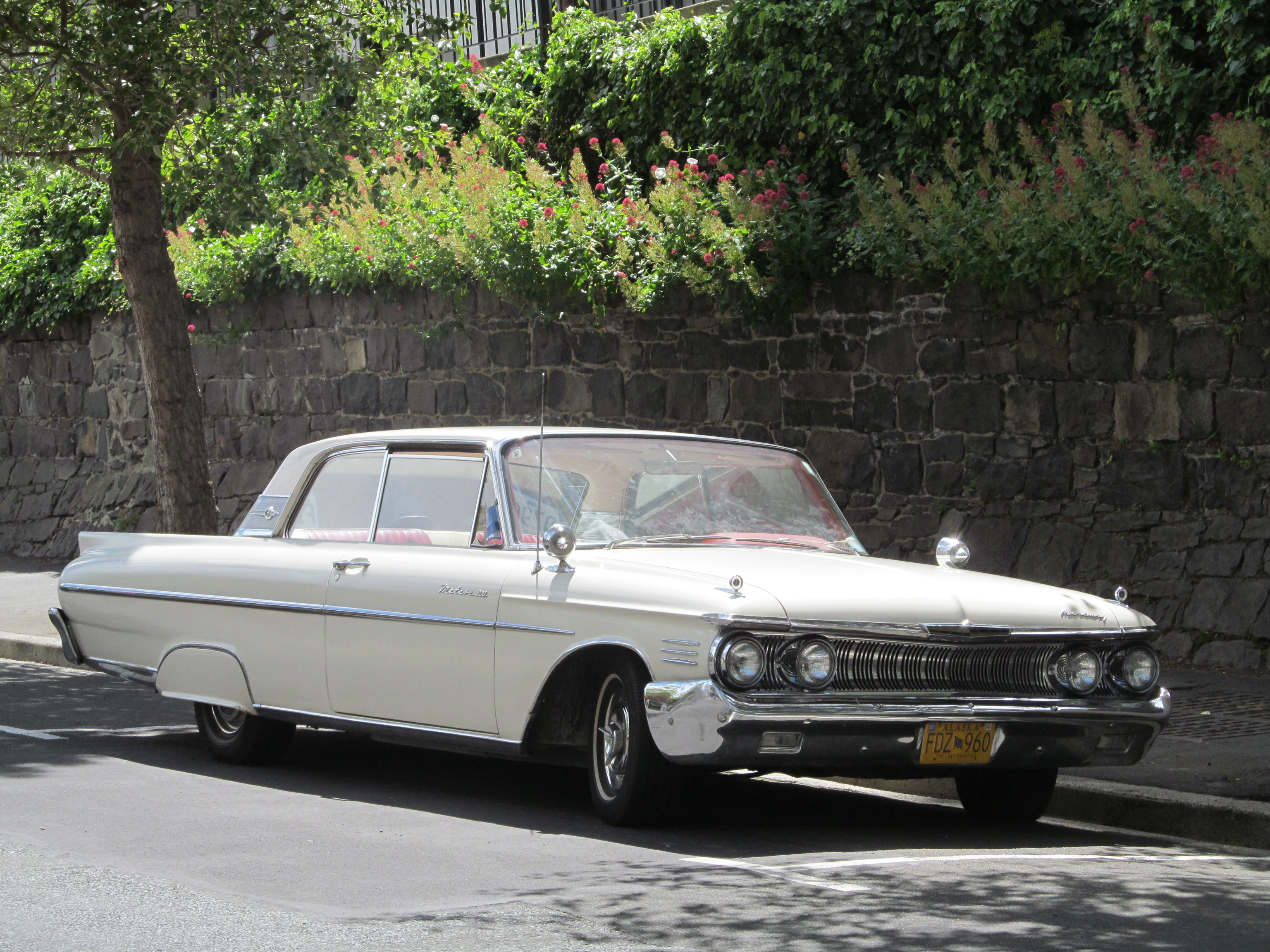 1961 Mercury Meteor hardtop (Alaskan registered), photographed in New Zealand.